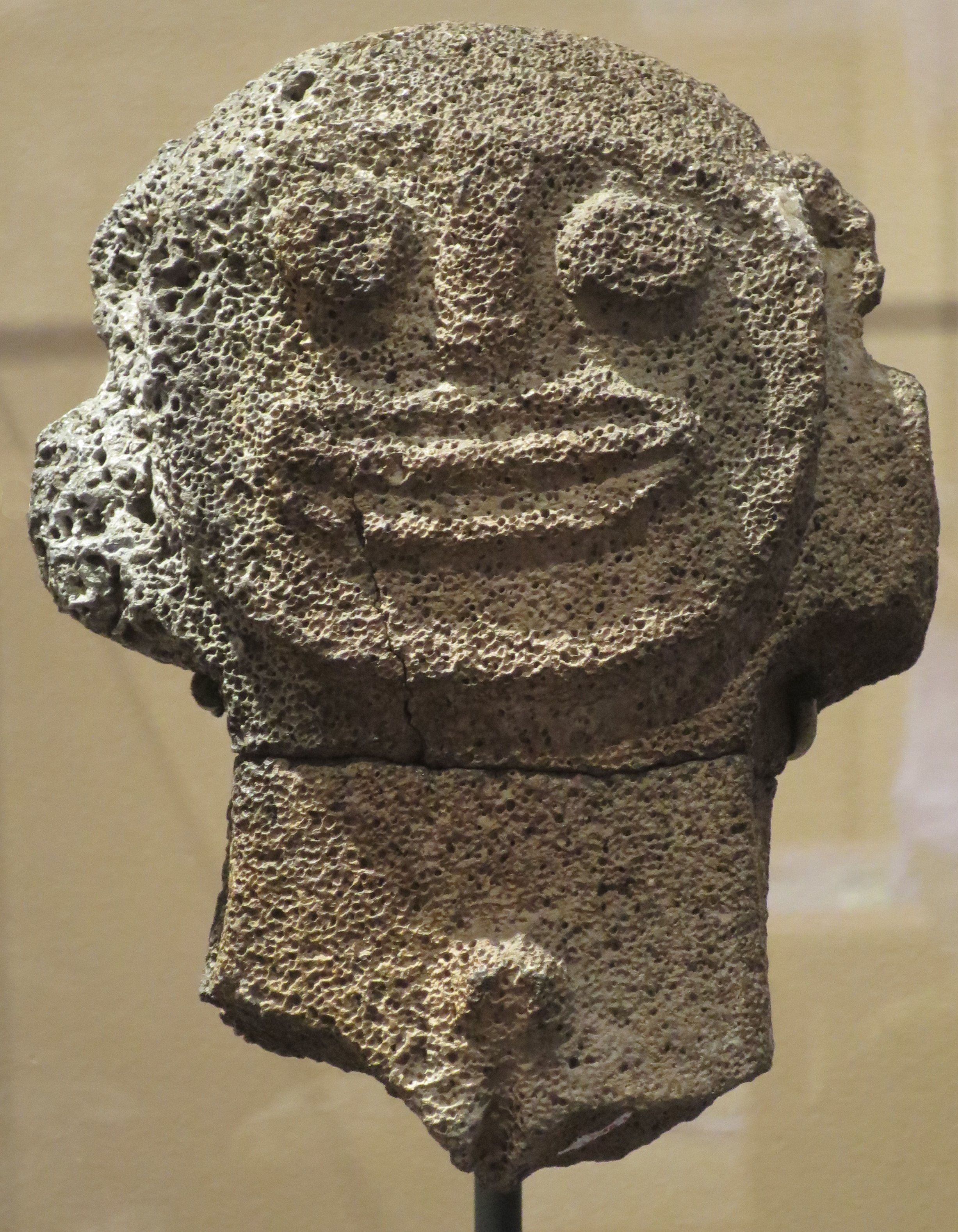 Vesicular basalt head from Mokumanamana (Necker Island), Hawaii, possibly 9th-11th century, Metropolitan Museum of Art